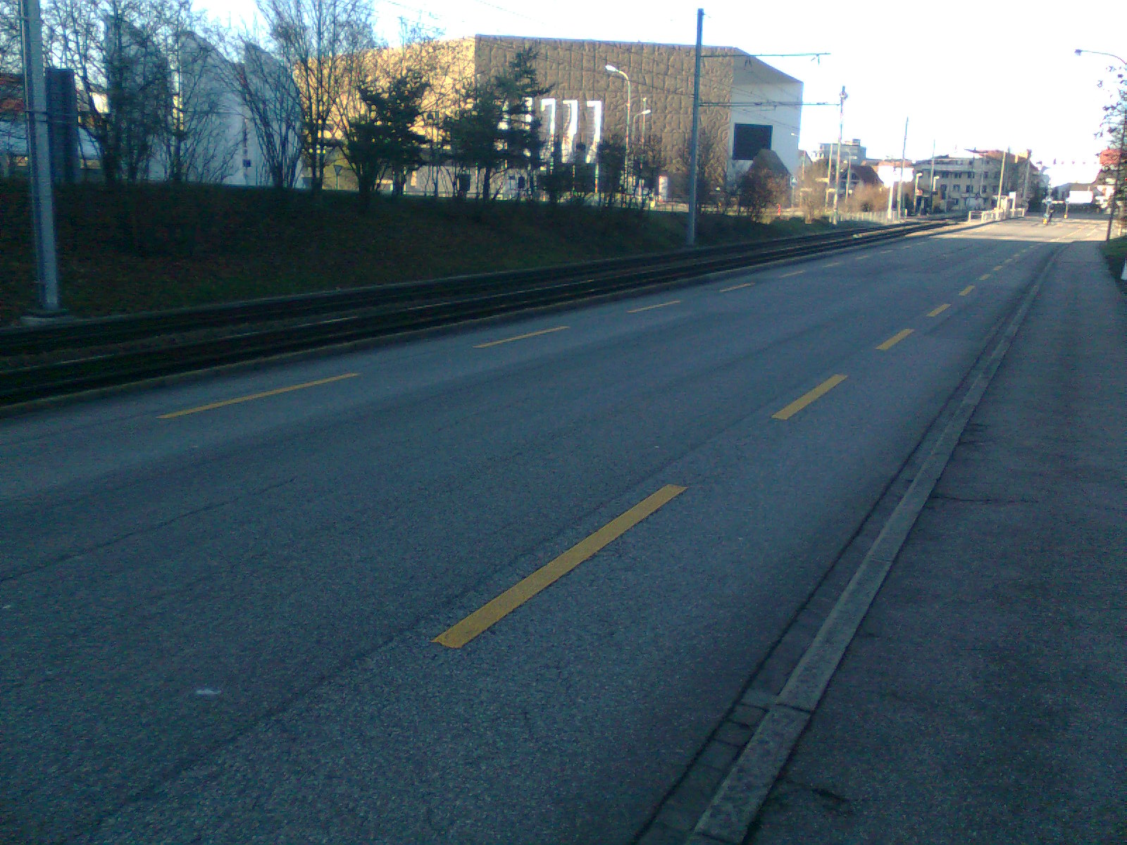 Kernfahrbahn (swiss road type), in Münchenstein, Basel Country